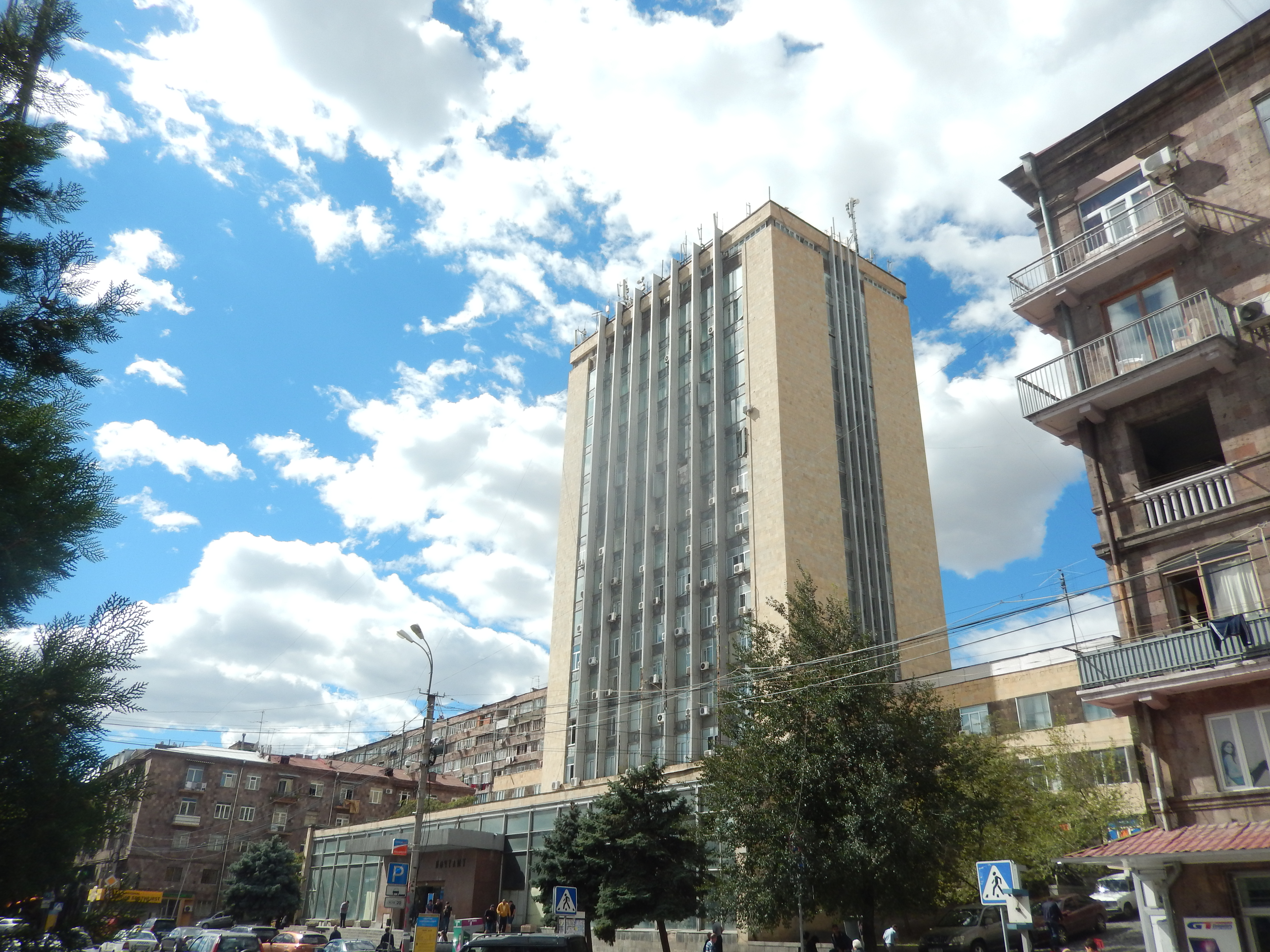 Buildings in Yerevan